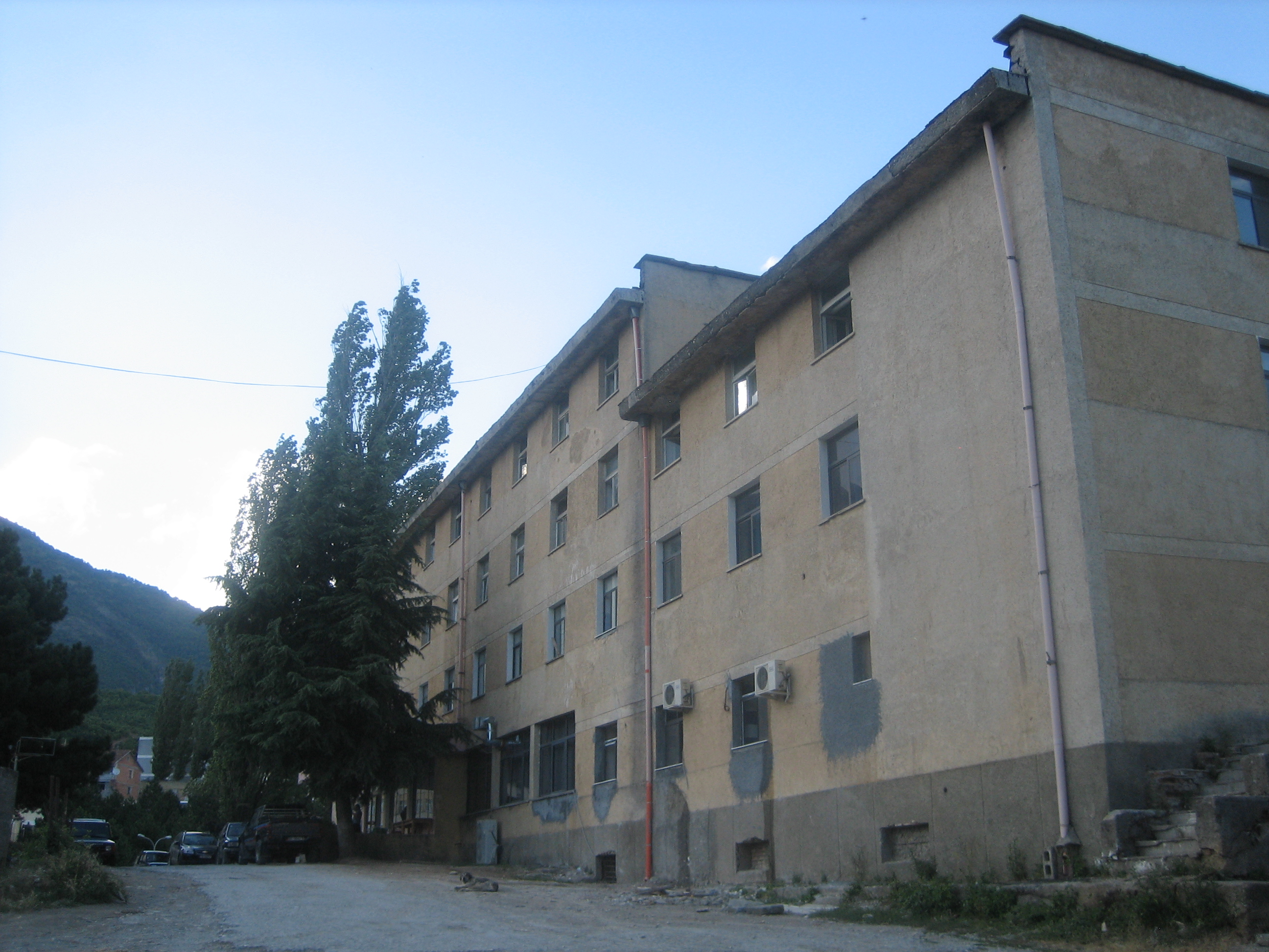 Albturist Ermal / Hotel Turizmi in Bajram Curri, Tropojë District, Kukës County, Albania